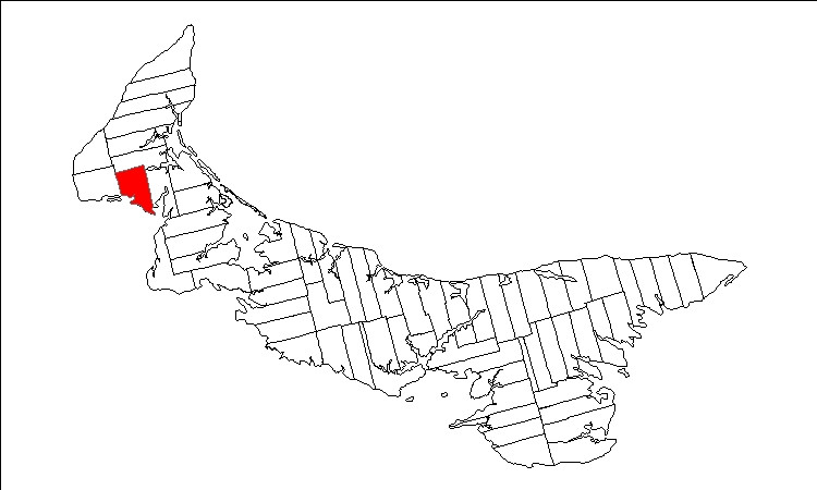 Public domain map of Prince Edward Island created by User:Plasma east with data courtesy of Geogratis, modified to show townships. Released under GFDL (self).